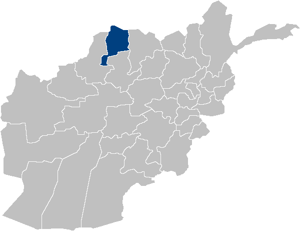 Location map for Jowzjan Province in Afghanistan. Original map source: Image:Afghanistan_provinces_blank.png